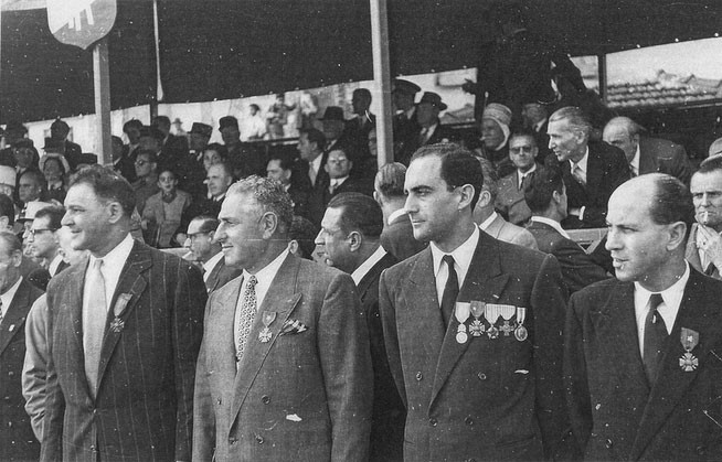 Founding members of the Geo Gras Group during the Croix de Guerre award ceremony in Algiers, from right to left : Charles Bouchara, Paul Sebaoun, Emile Atlan